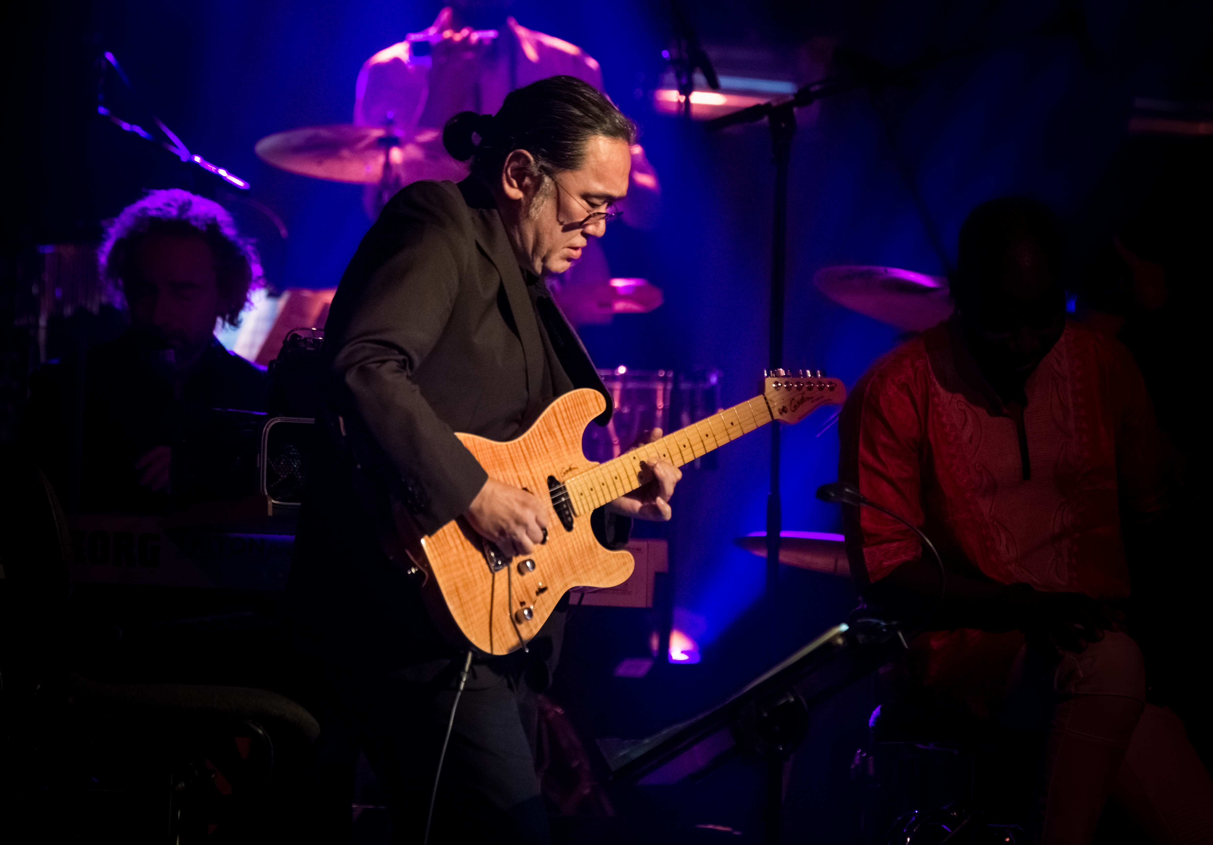 Paul Shigihara with WDR Big Band feat. Mokhtar Samba - Leverkusener Jazztage 2016